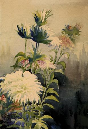 White chrysanthemums. Water color on paper. 32.5 x 22 cm